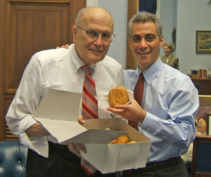 Rep. John Dingell (MI) (left) & Rep. Rahm Emanuel (IL) (right) celebrate Paczki Day, February 28, 2006